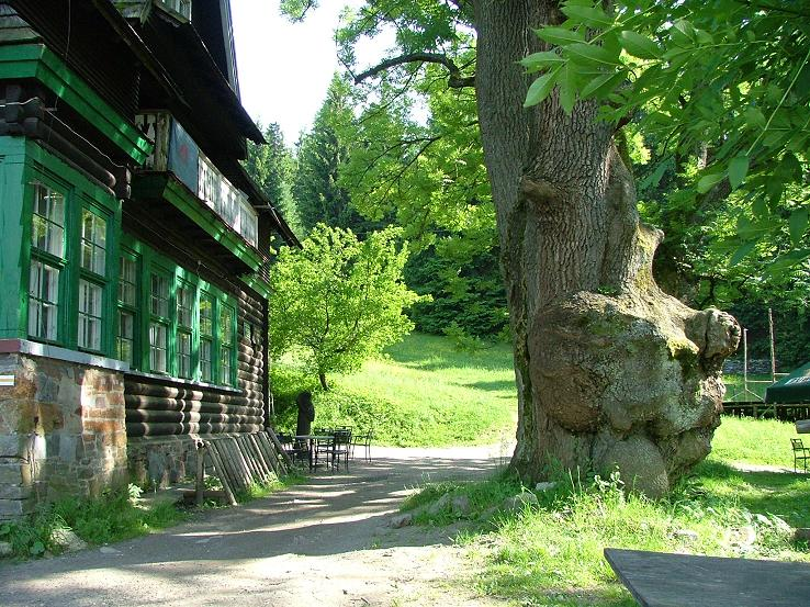 European Ash "Bolko" near Duszniki-Zdrój in Bystrzyckie Mts.